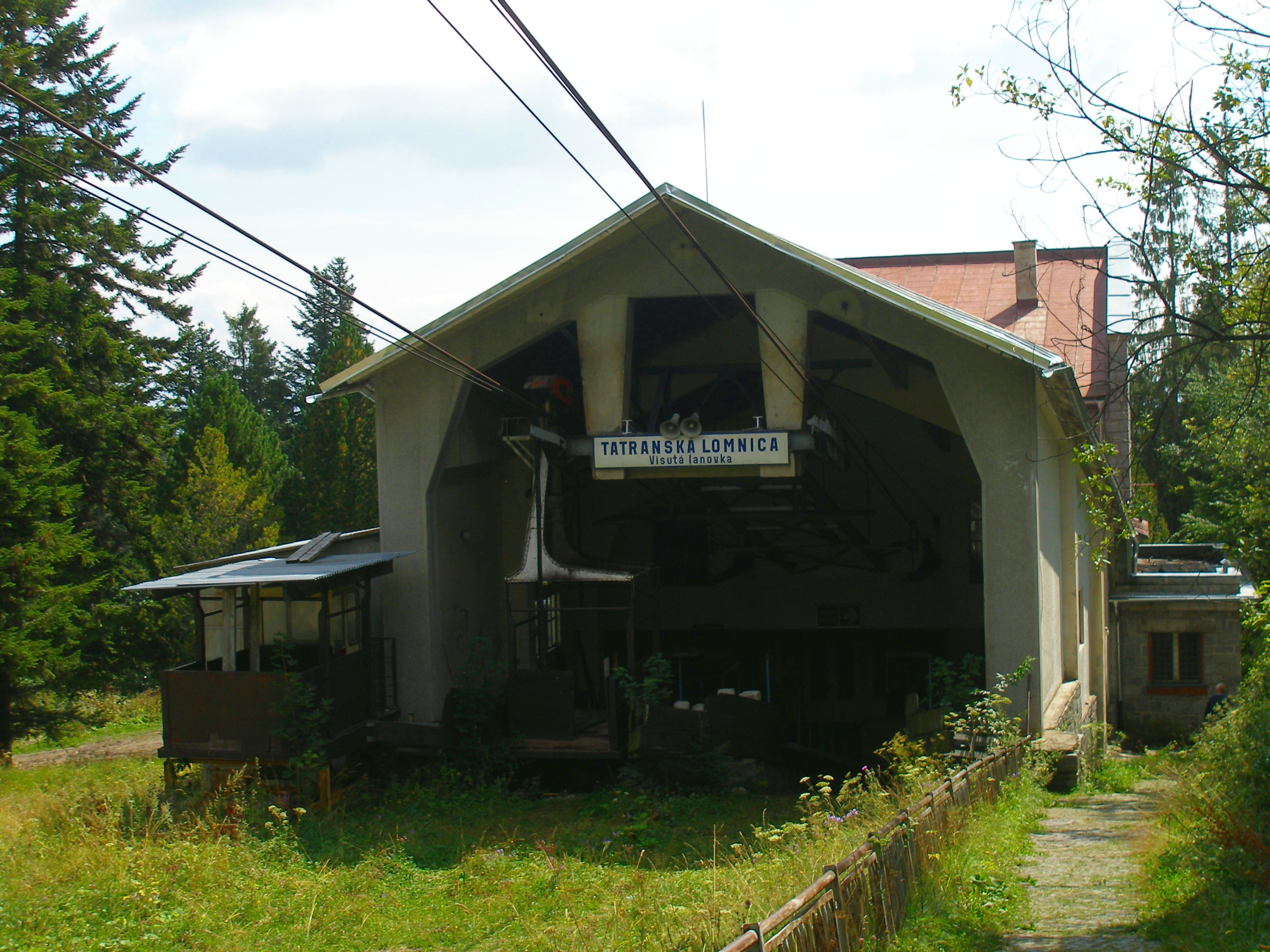 Station of cableway Tatranská Lomnica–Lomnický štít. Station Tatranská Lomnica is valley station of 1. segment (to Skalnaté pleso).